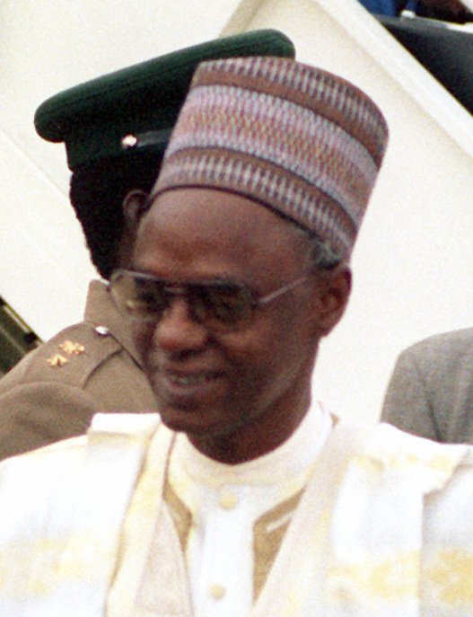 President Sharari of NIGERIA is greeted by BGEN Archer Durham upon his arrival for a visit. Location: ANDREWS AIR FORCE BASE, MARYLAND (MD) UNITED STATES OF AMERICA (USA)